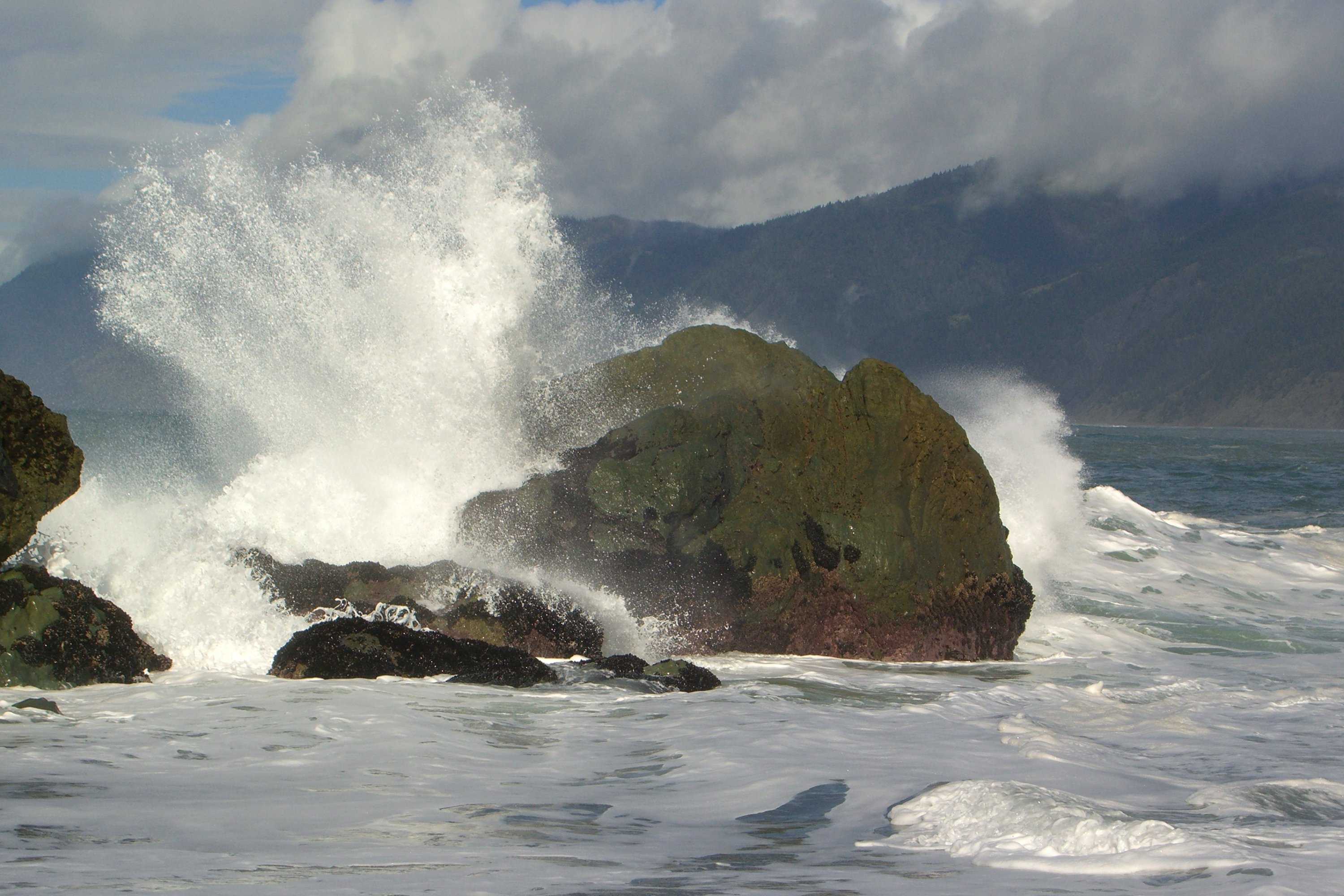 Beach at Shelter Cove, northern California, Feb 23, 2007.